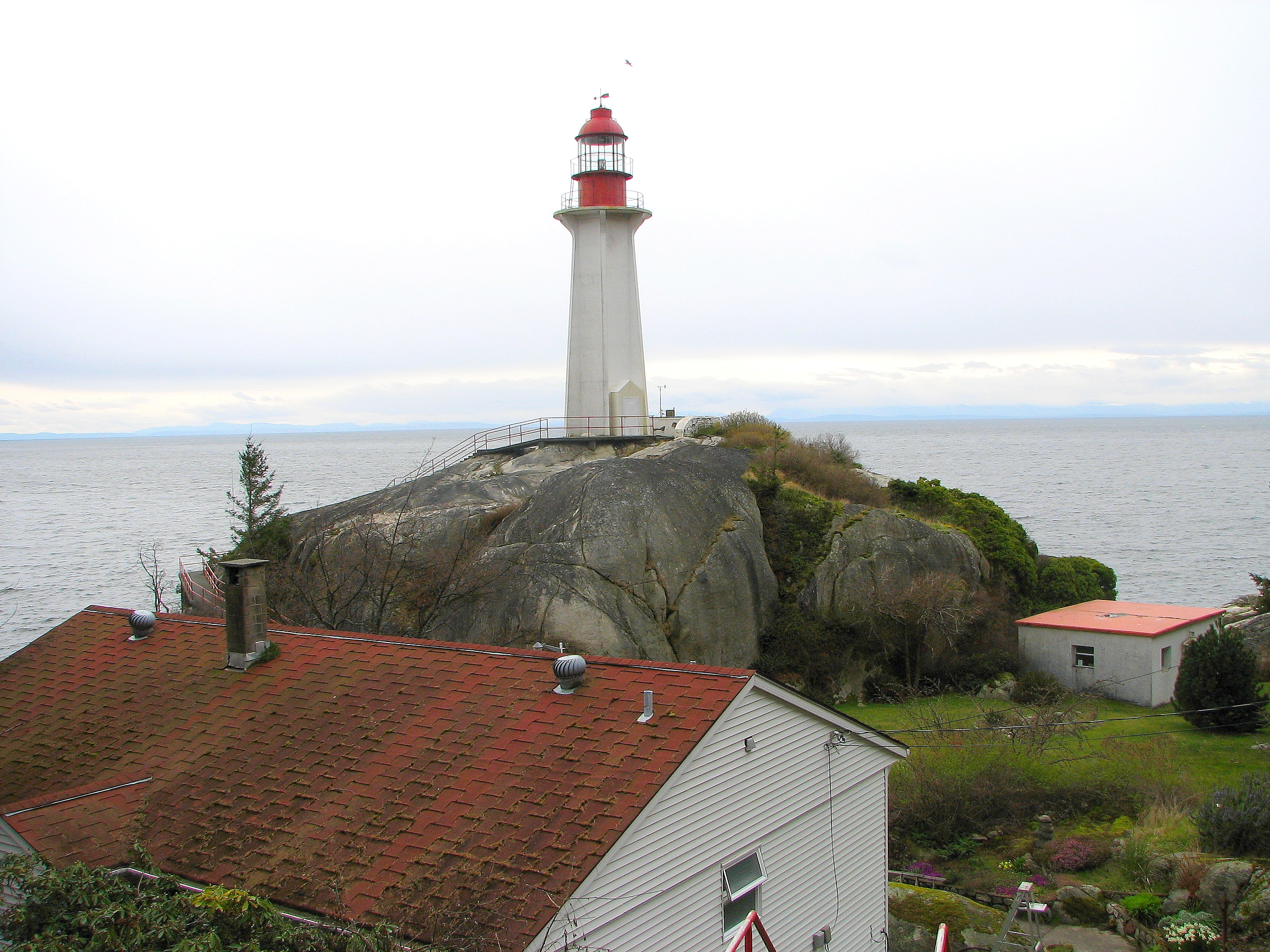 Point Atkinson lighthouse in Lighthouse Park (Point Atkinson), West Vancouver, British Columbia